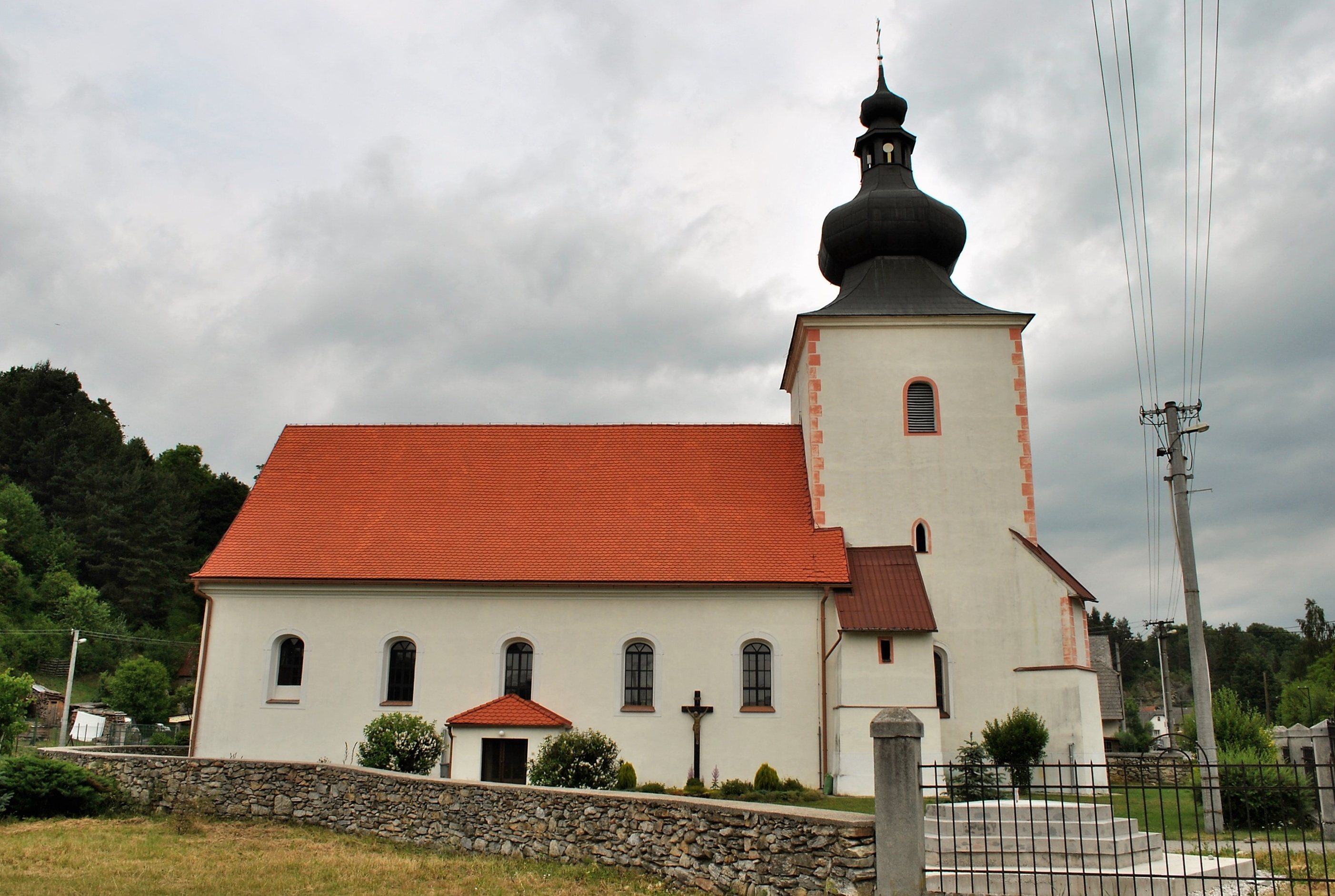 Kľačno, district of Prievidza, Slovakia - Catholic church of Saint Nicholas